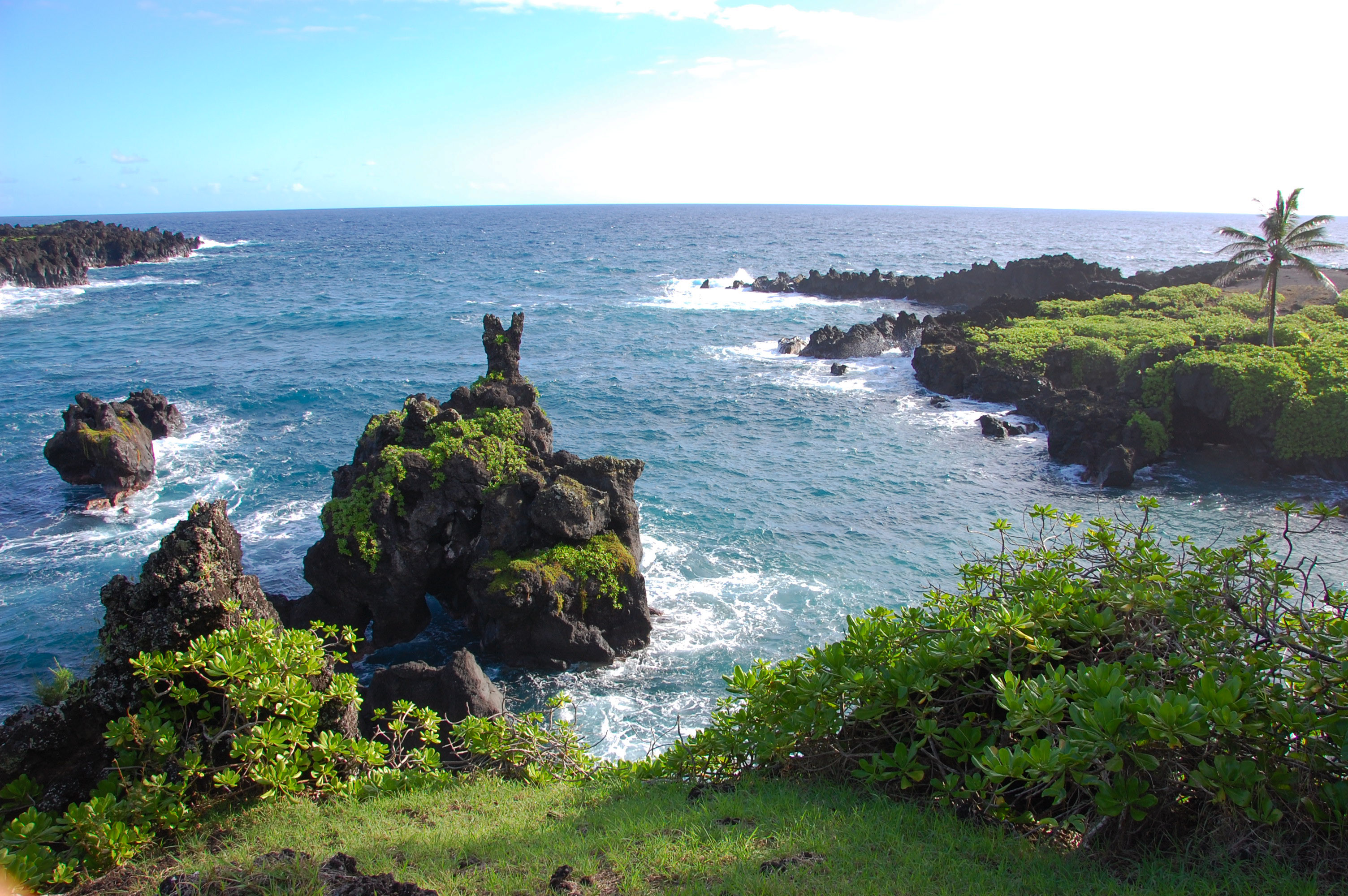 Wai'anapanapa State Park — Hana, island of Maui.